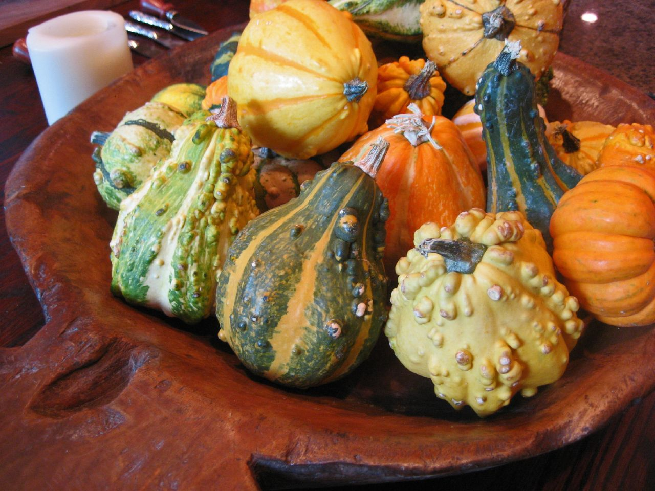 Squash Decor